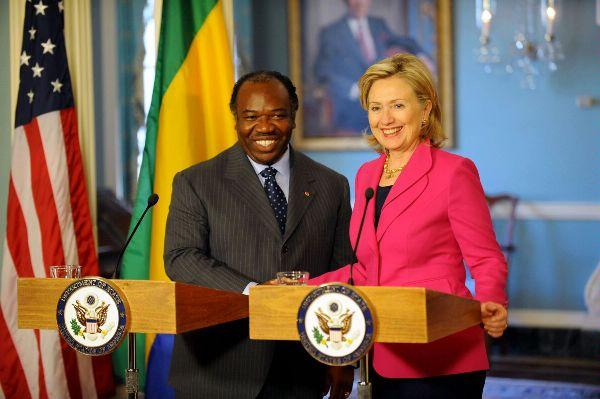 U.S. Secretary of State Hillary Rodham Clinton with President Bongo of Gabon at the U.S. Department of State in Washington, DC, March 8, 2010. [State Department Photo/Public Domain]